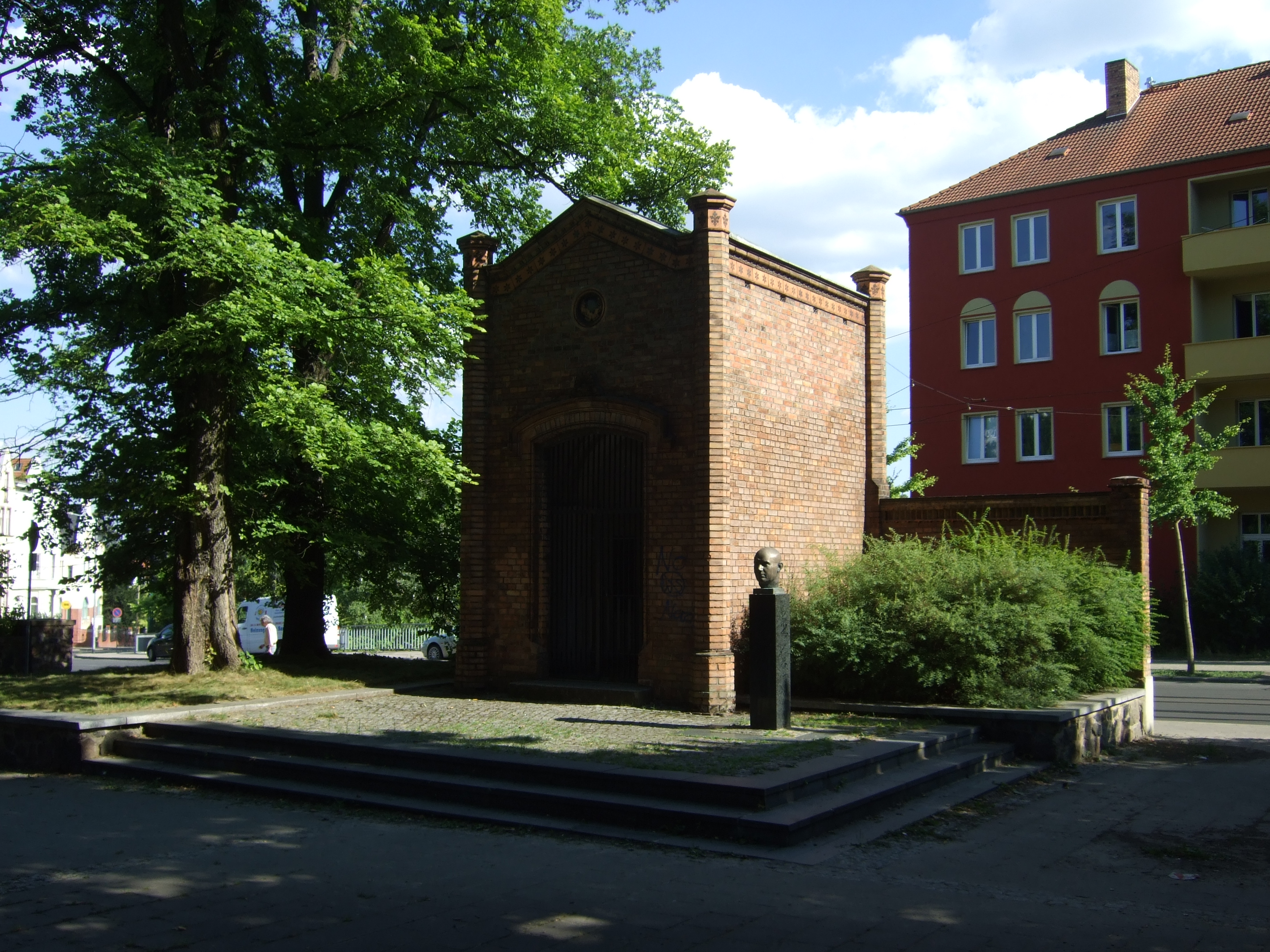 Kleistpark Frankfurt (Oder), Germany. Ernst Thälmann Memorial.